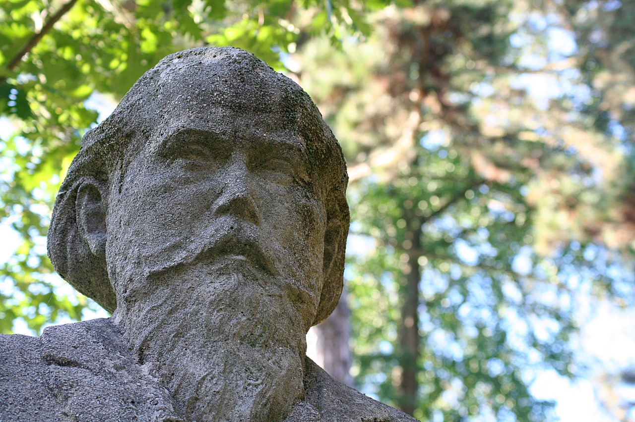 A bust of Johannes Brahms in the Palace Gardens in Detmold.